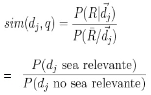 modelo BIM